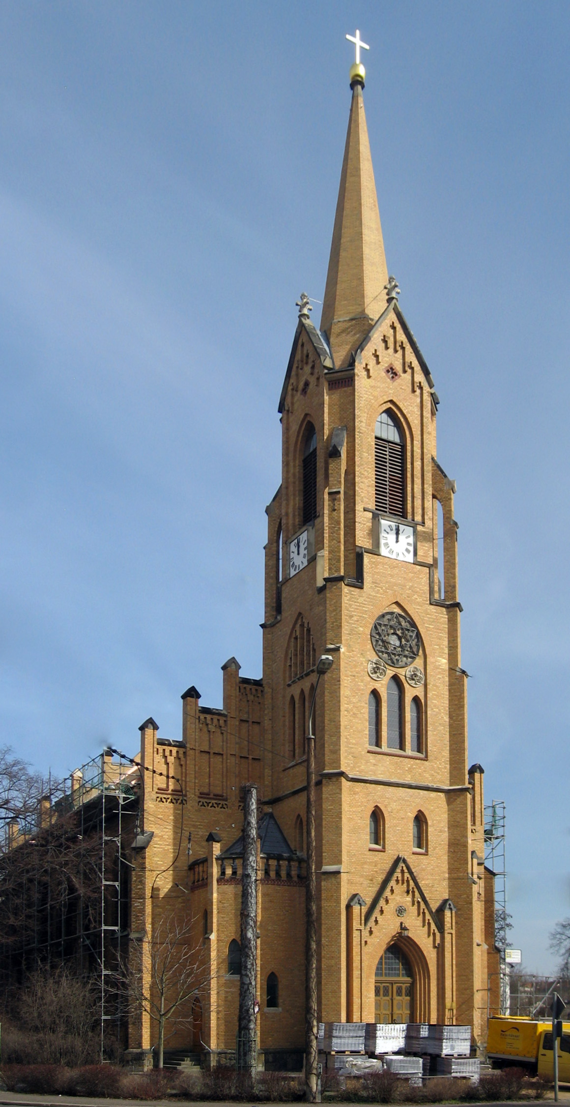 Peace church in Leipzig-Gohlis, Kirchplatz